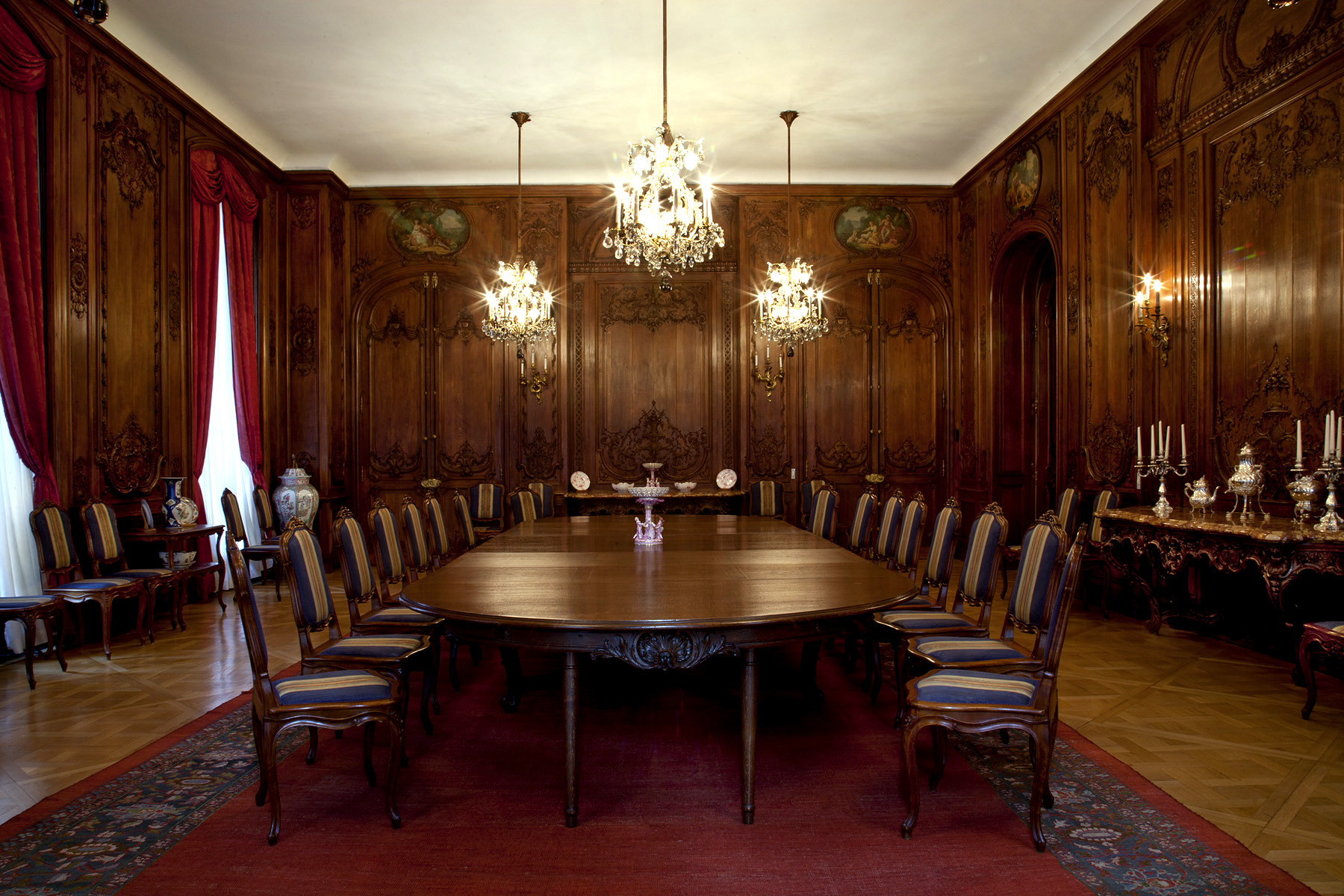 The Residence of the U.S. Ambassador in Prague’s Bubeneč was built by Otto Petschek in 1924—30. Dining room.